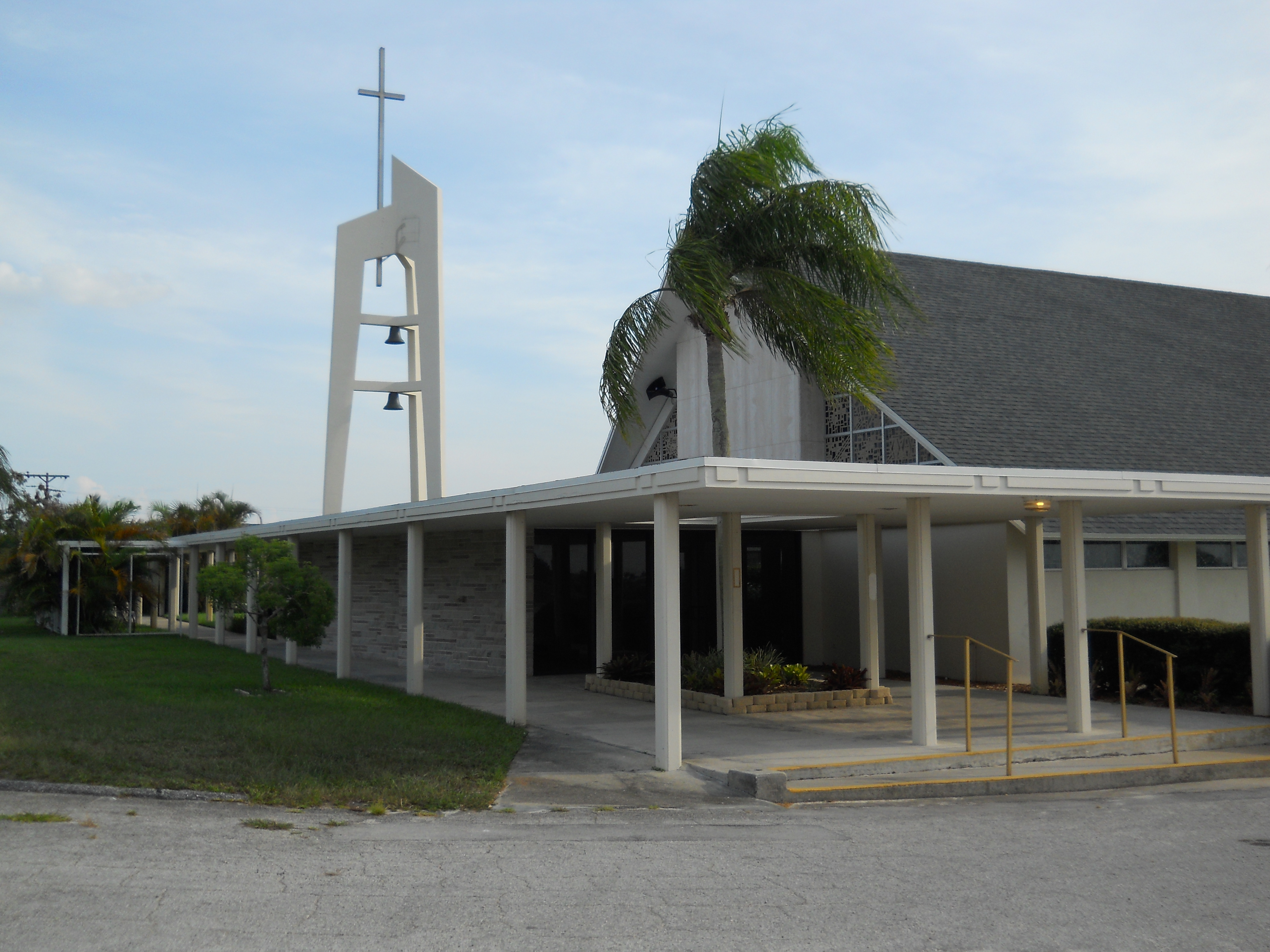 Jensen Beach Community Church, United Church of Christ, 3900 NE Skyline Drive, Jensen Beach, Florida: Main entrance on Northeast corner